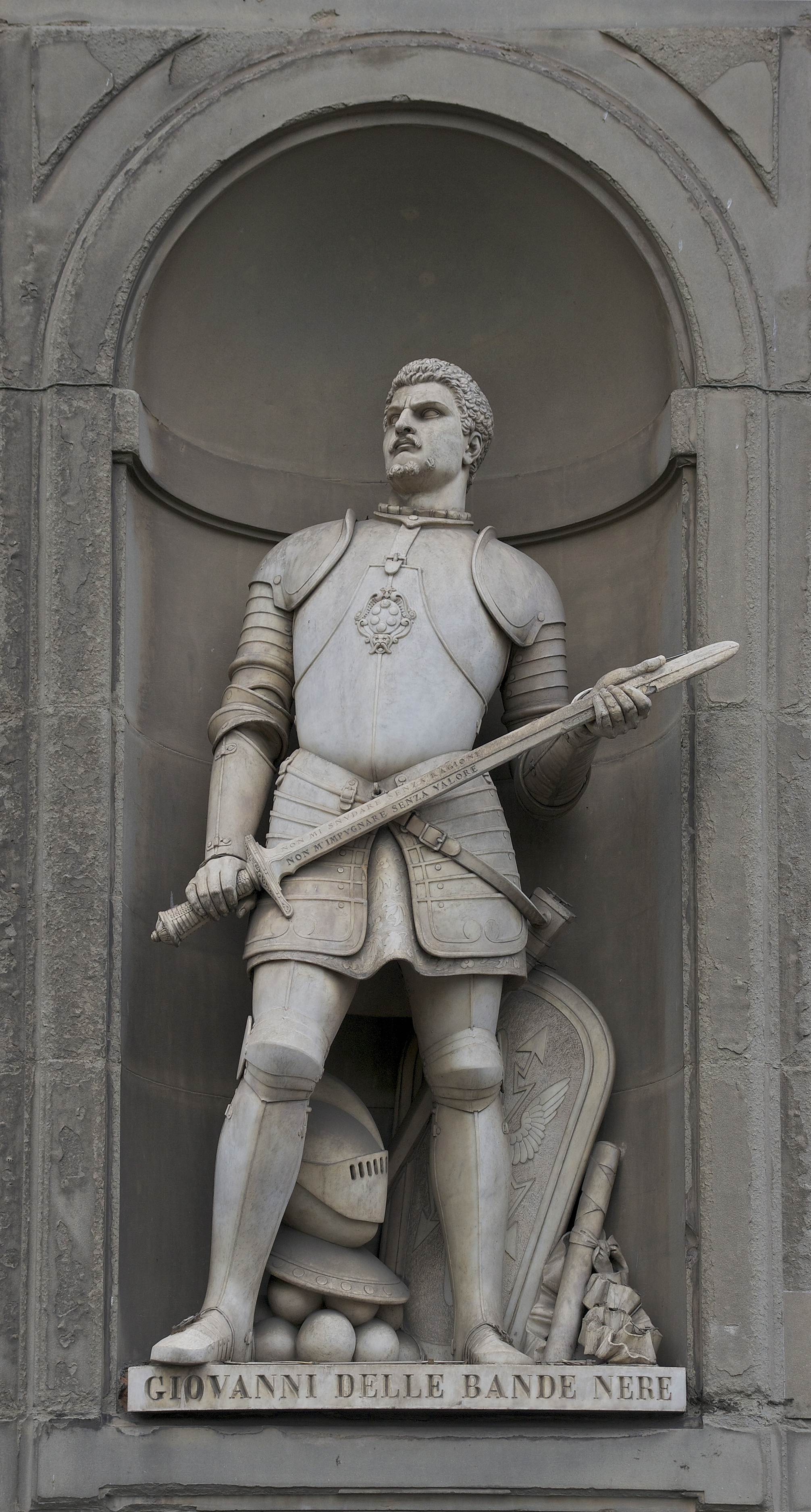 Statue of Lodovico de Medici (Giovanni dalle Bande Nere) by Temistocle Guerrazzi, Uffizi Gallery, Florence, Italy.